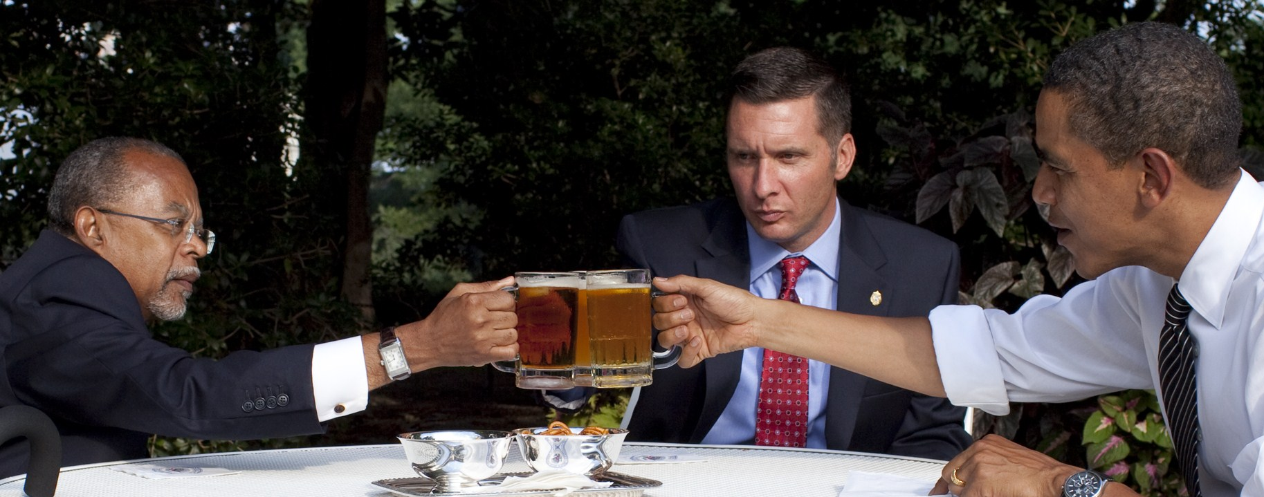 President Barack Obama, Professor Henry Louis Gates Jr. and Sergeant James Crowley toast at the start of their meeting in the Rose Garden of the White House, July 30, 2009. Cropped from an official White House Photo by Pete Souza